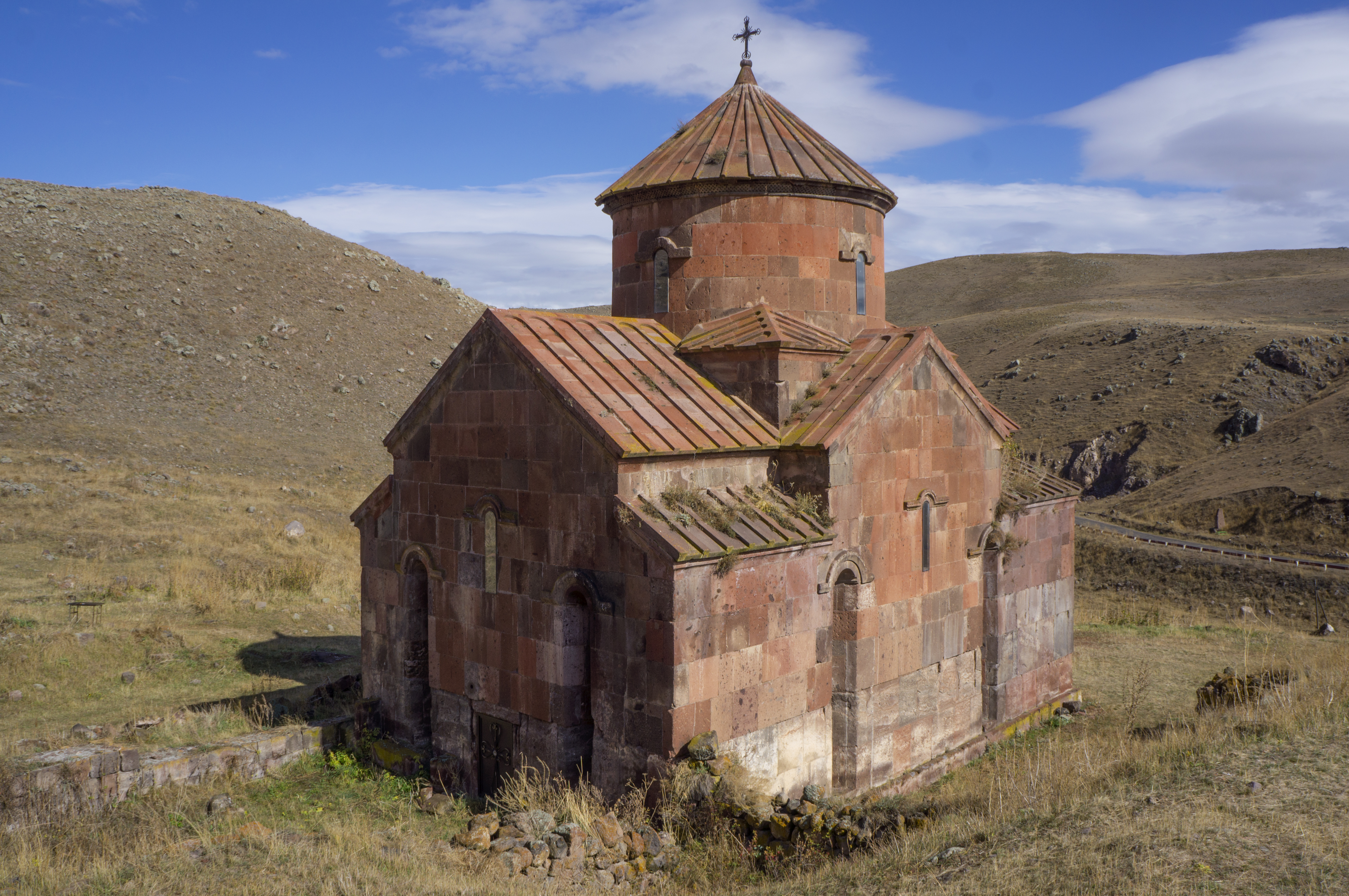 Hogevank Monastery in Shirak province, Armenia 100/42.1